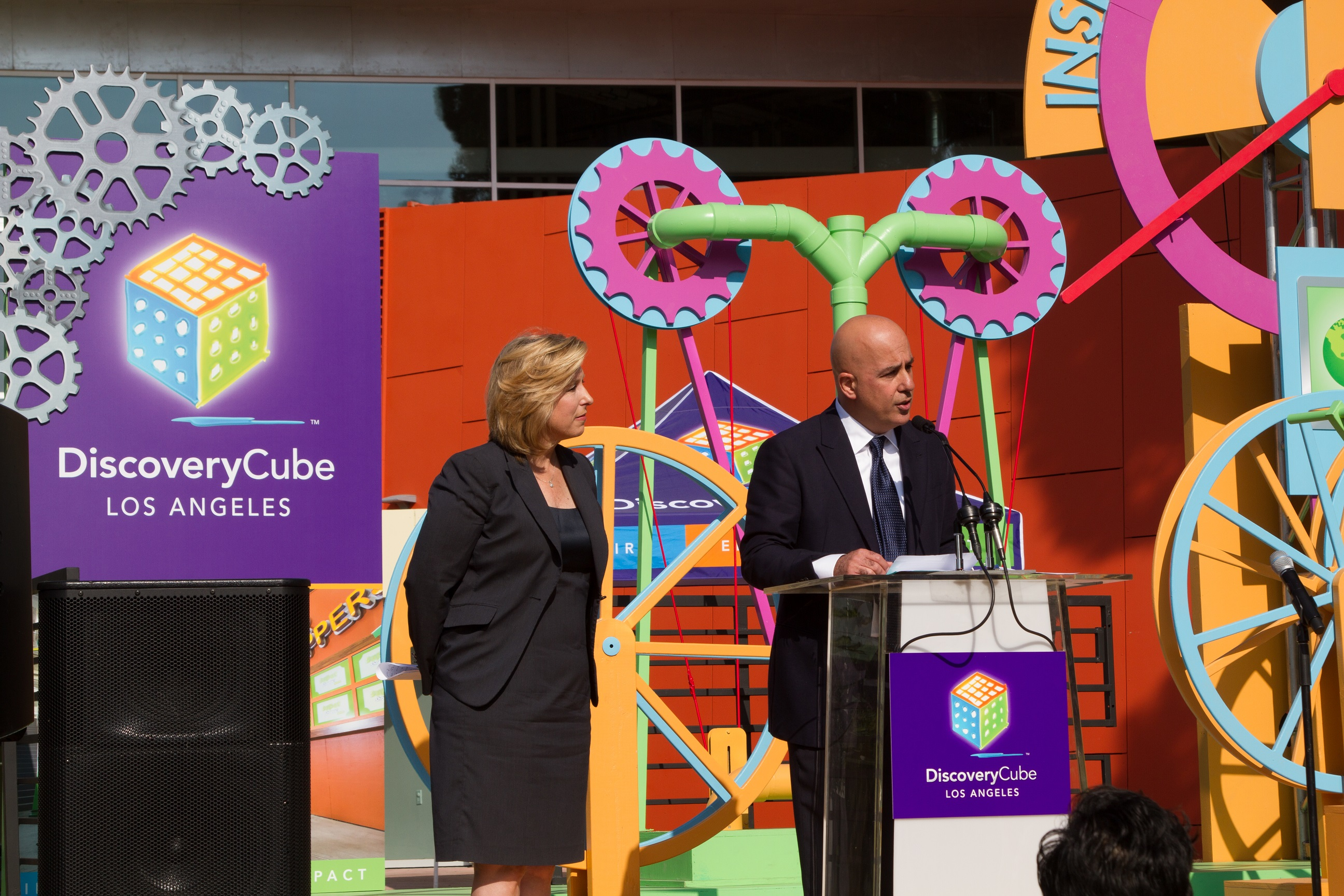 Pedram Salimpour Discovery Cube Orange County - December 2014